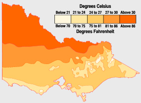 Created by Artemus Jones.